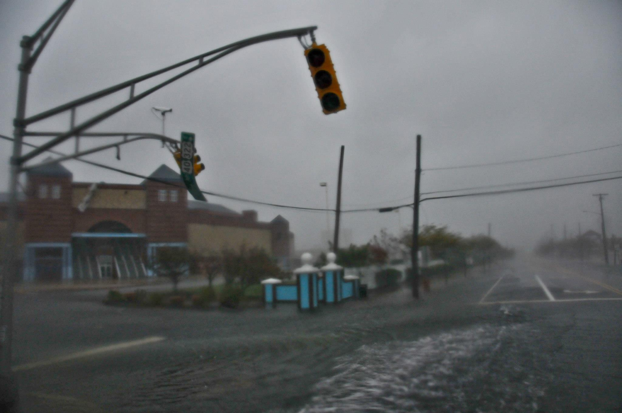 A view out the back of a New Jersey Army National Guard M35 2½ ton cargo truck conducting relief operations on Oct. 29 in Atlantic City, N.J. during Hurricane Sandy. (U.S. Air Force photo/Tech. Sgt. Matt Hecht)